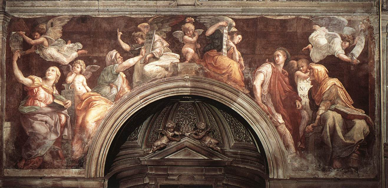 Raphael, The Sibyls, c. 1514 Fresco, width at base 615 cm Santa Maria della Pace, Rome